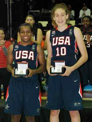 Ariel Massengale and Breanna Stewart, two of the five member named to the five-member All-FIBA U19 World Championship Team, representing the USA team. The final game was played on July 31, 2011 in Puerto Montt, Chile